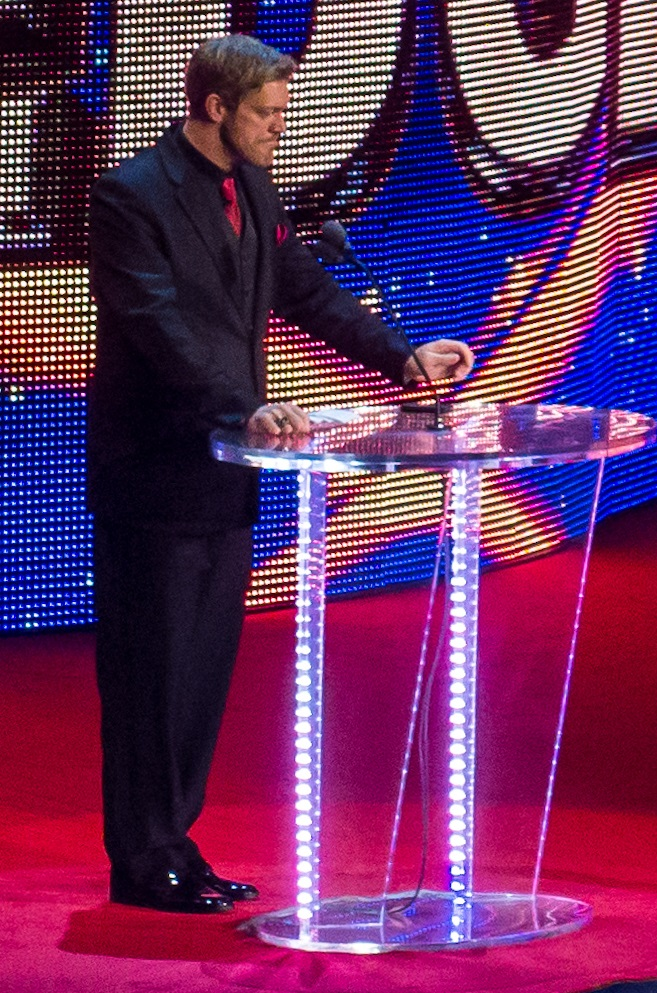 Edge giving his Hall of Fame induction speech